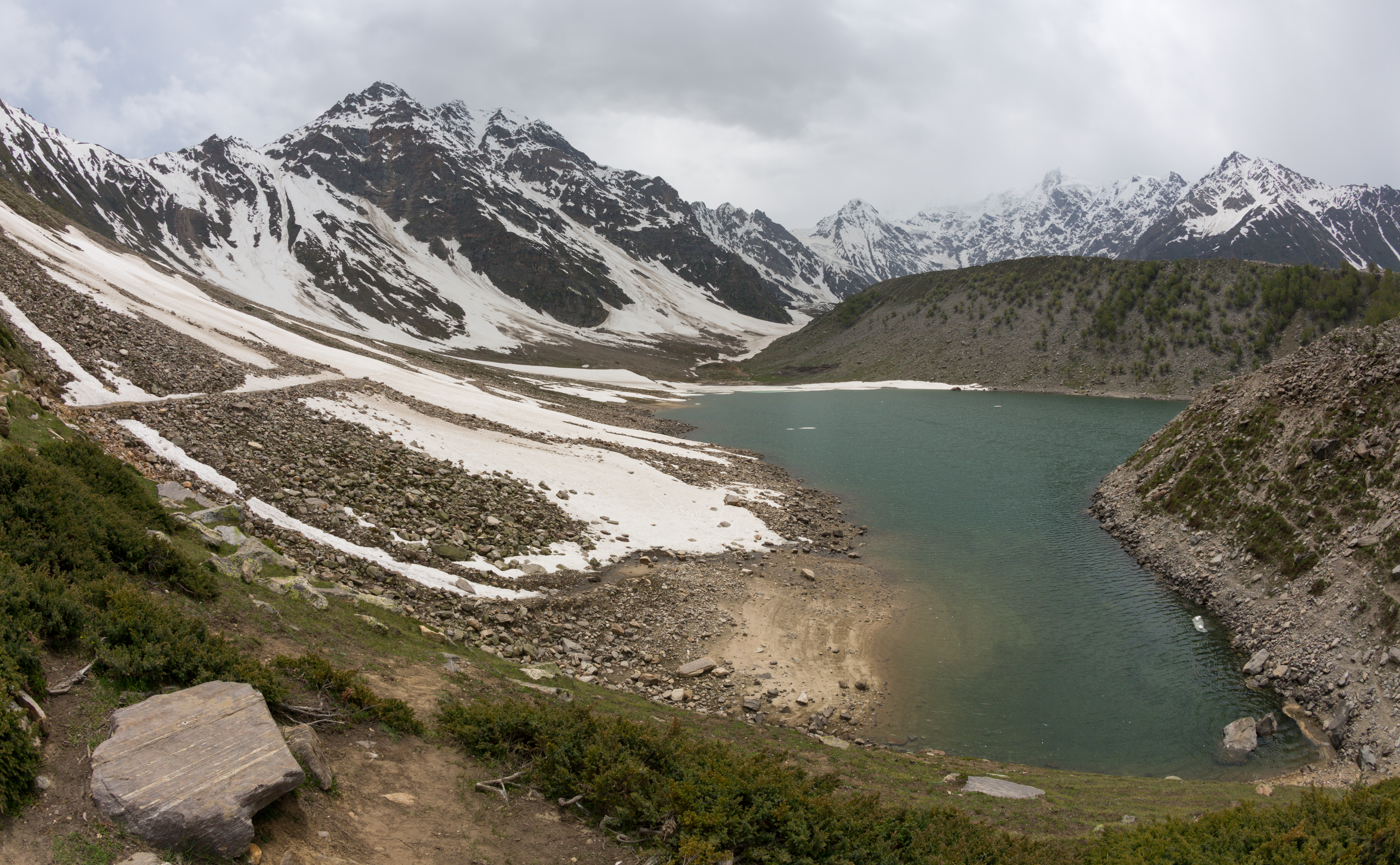 Rama Lake is situated in Astore district on the eastern slopes of Nanga Parbat.